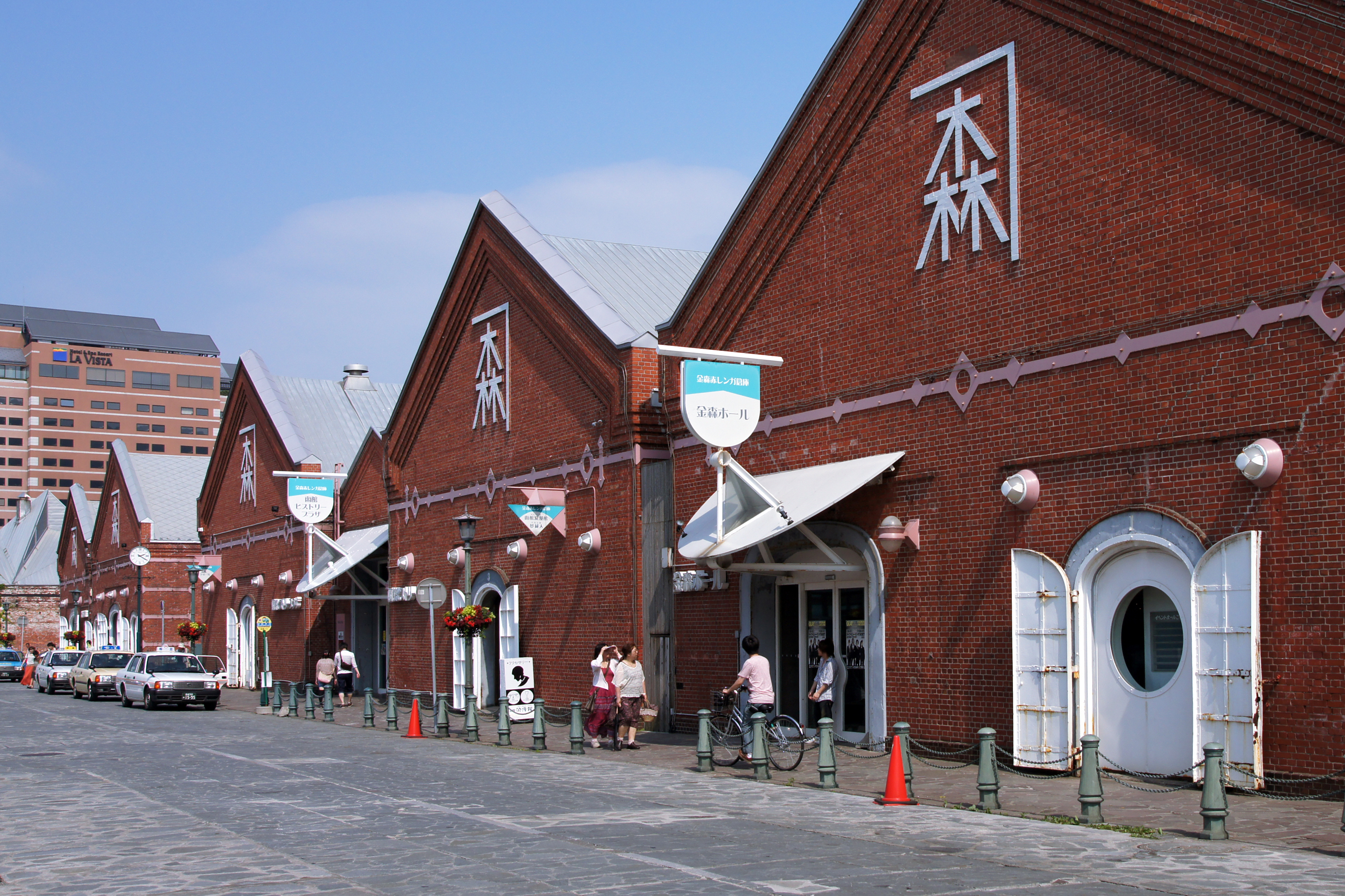 Kanemori Red Brick Warehouse, Suehirocho, Hakodate, Hokkaido prefecture, Japan